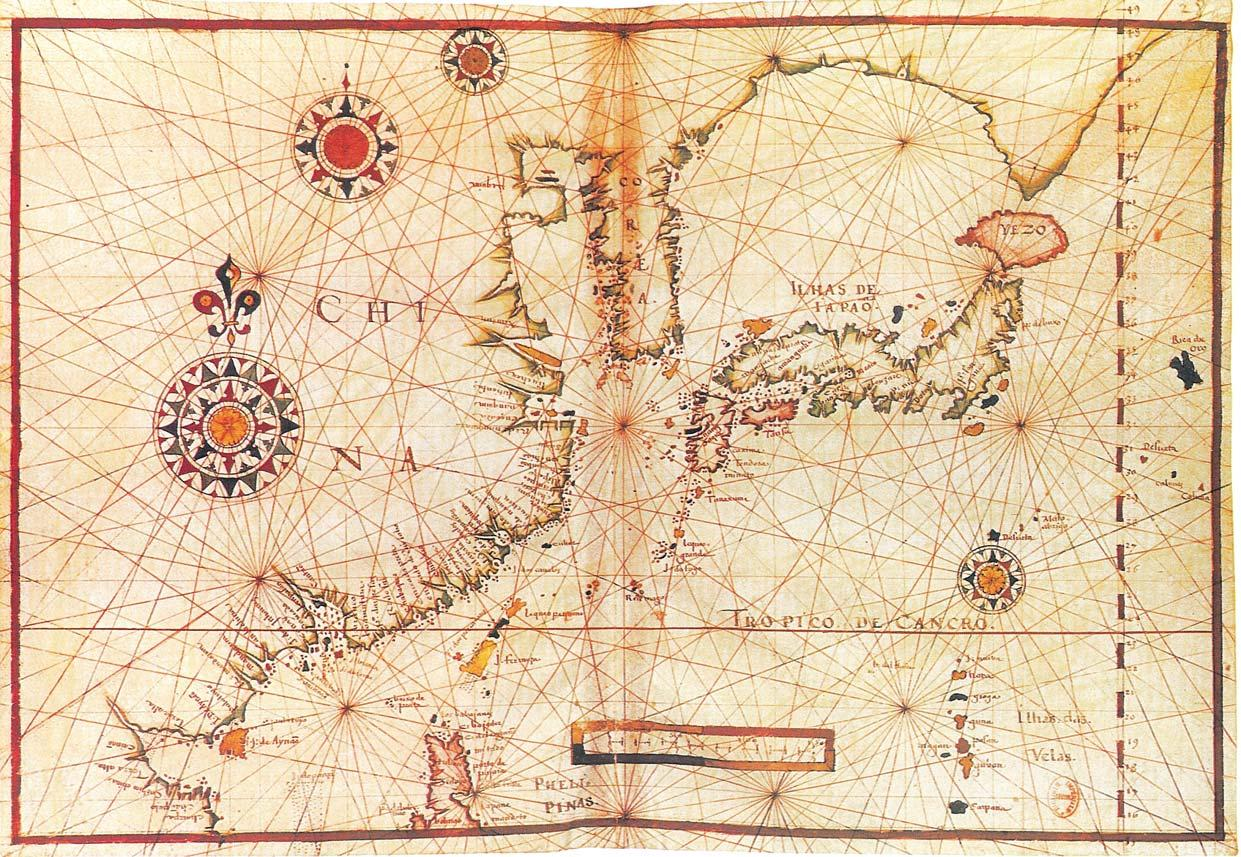 Portuguese Map of Korea in 1628